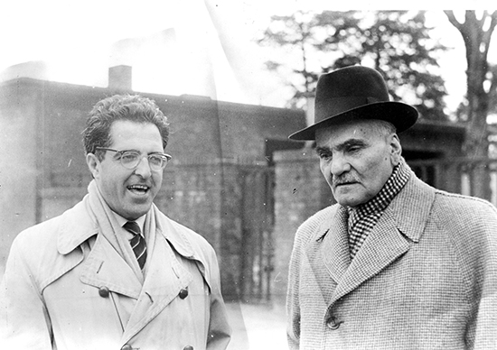 Abbas Zaryab (left), Hassn Taqizadeh (right)